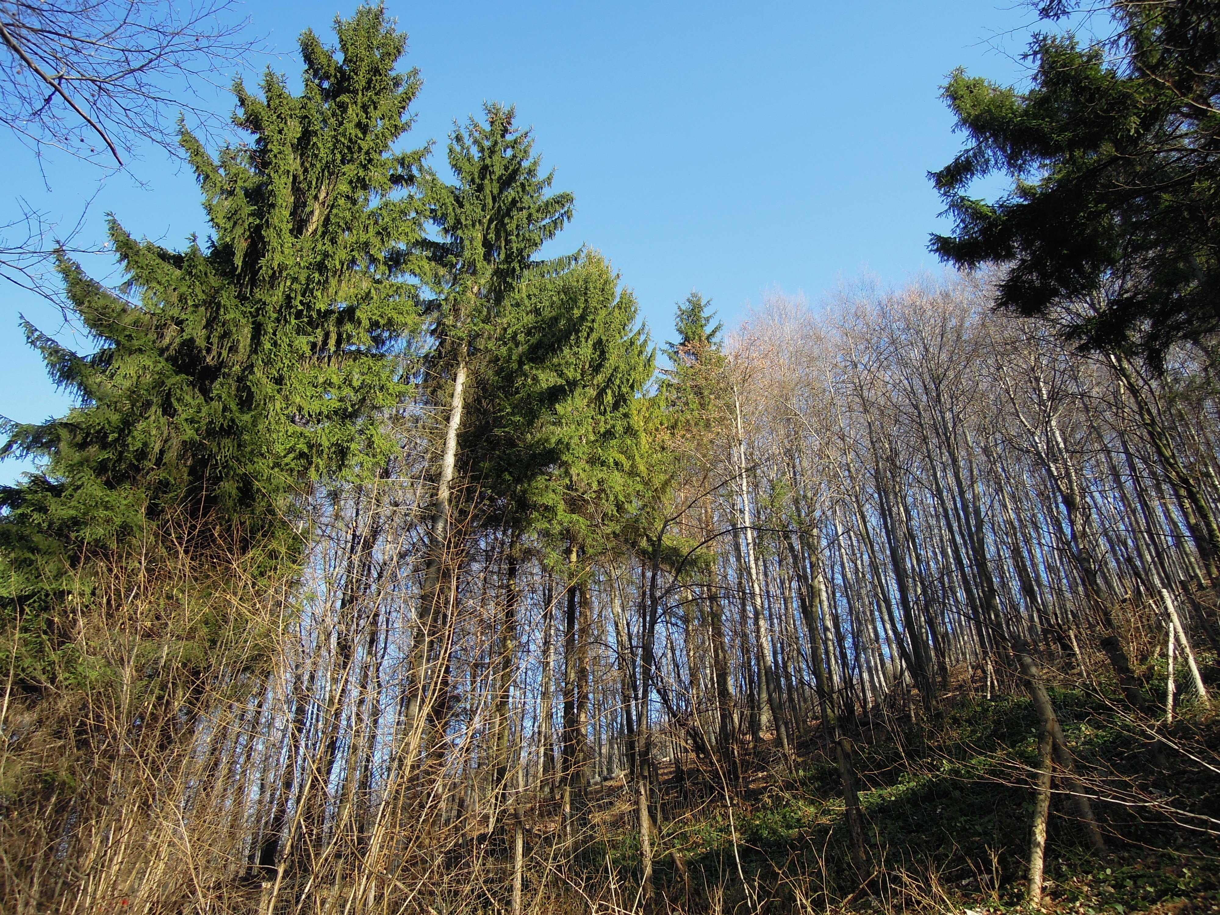 Trojačka nature reserve, Nový Jičín District, Moravian–Silesian Region, Czech Republic